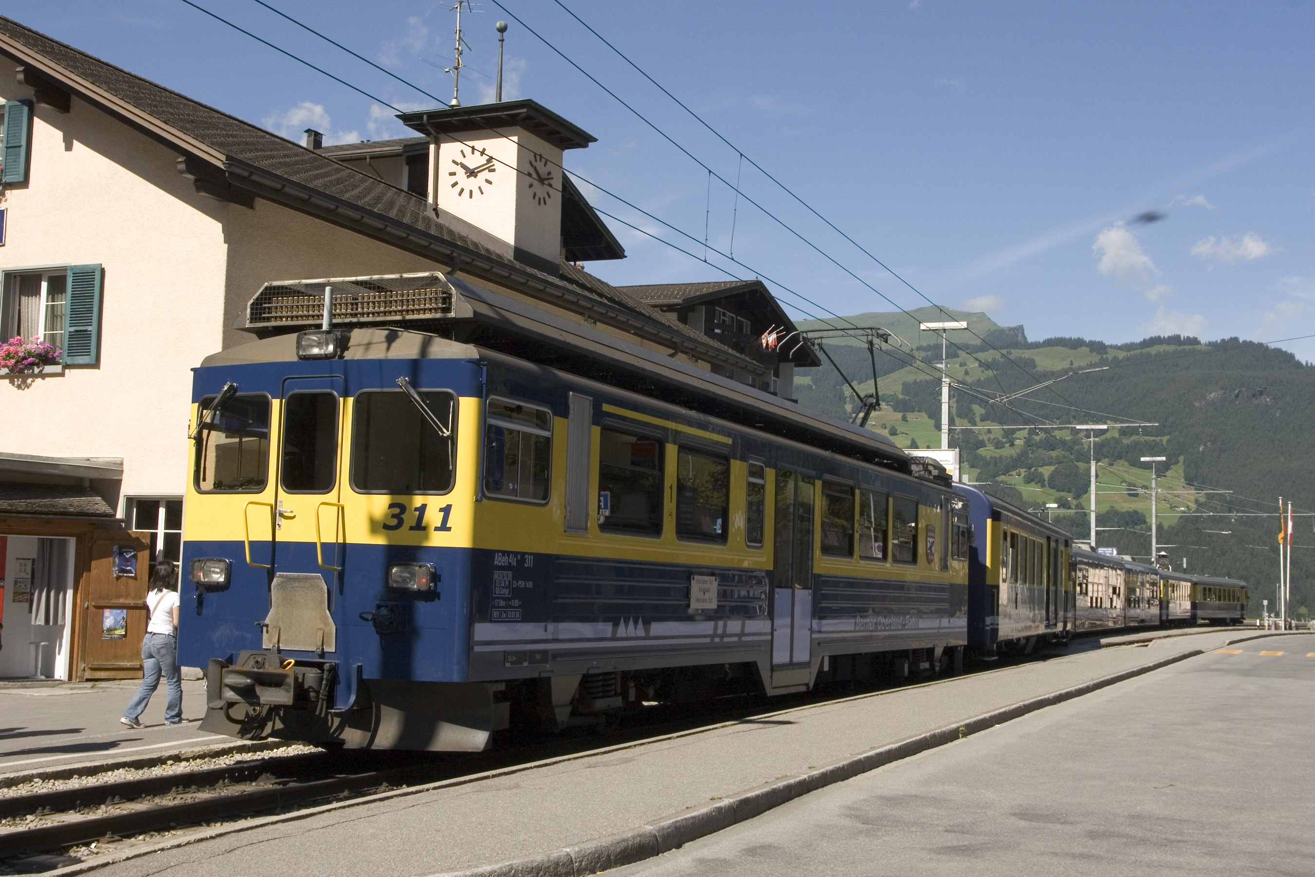 2008-07-20 Berner Oberland Bahn train at Grindelwald railway station